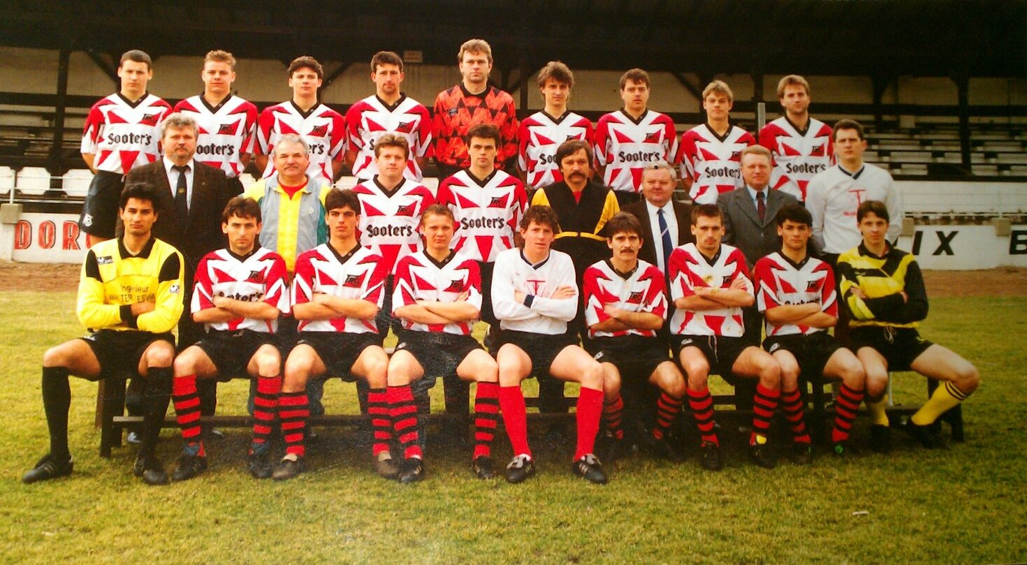 Team of Dorogi Banyasz national seconder class in 1994